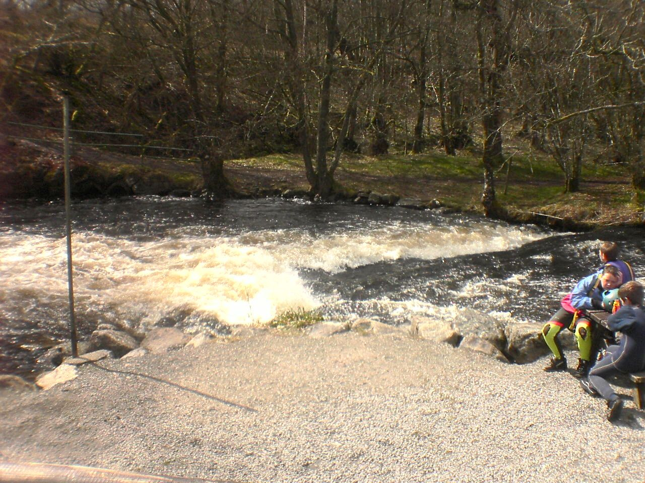 Canolfan Tryweryn - wave, Author Jamsta 12:11, 15 September 2006 (UTC)